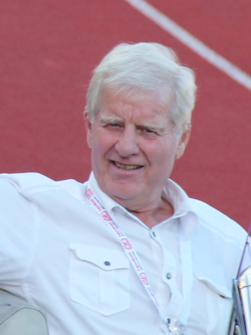 Terje Pedersen at the 2015 Bislett Games